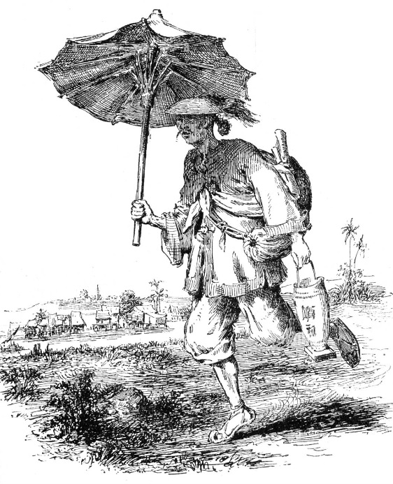 An ancient Chinese drawing depicting an ancient China mail carrier (courier).